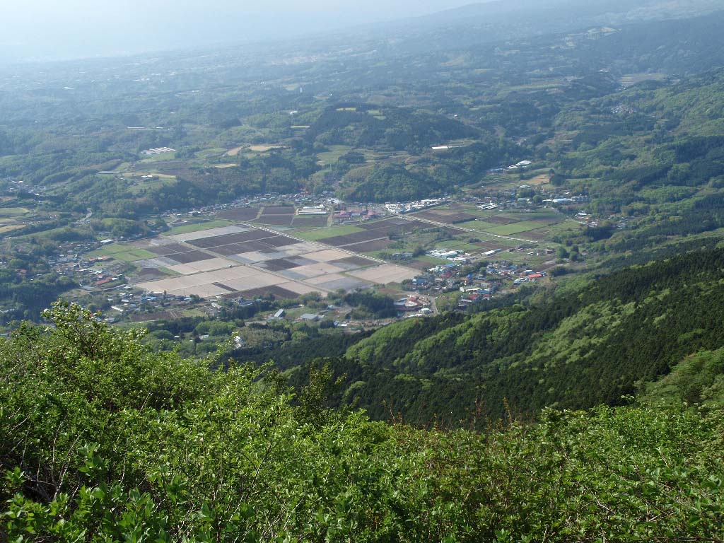 Tanna Basin as seen from the southwest in Kannami town, Shizuoka prefecture, Japan. Shot at Mount Kurotake.